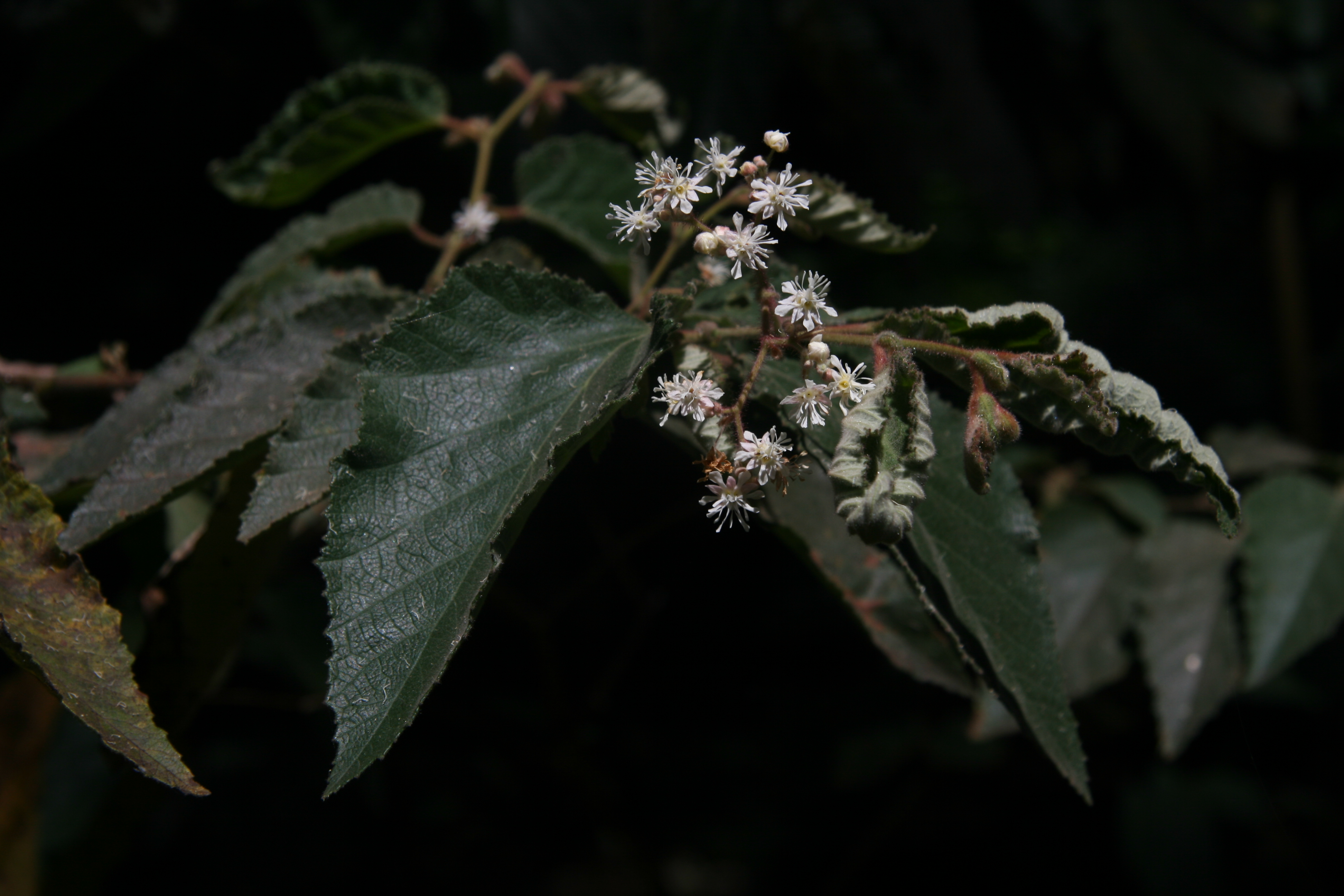 Commersonia fraseri, Sylvan Grove Native Garden, Picnic Point, NSW